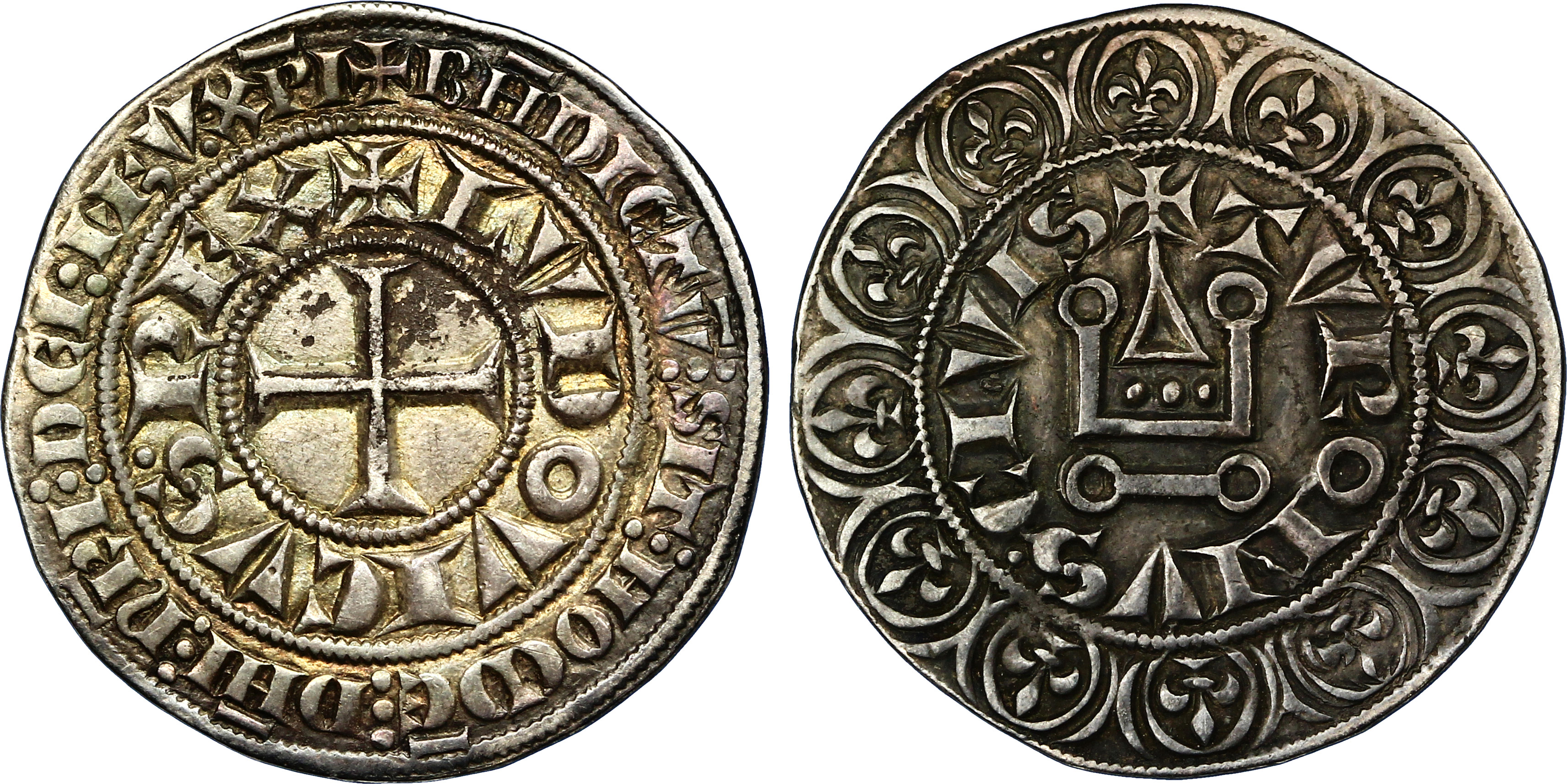 Made after 1266.